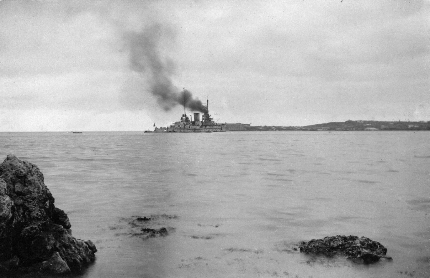 German battlecruiser SMS Goeben in Sevastopol, presumably in 1918 after the Russian surrender